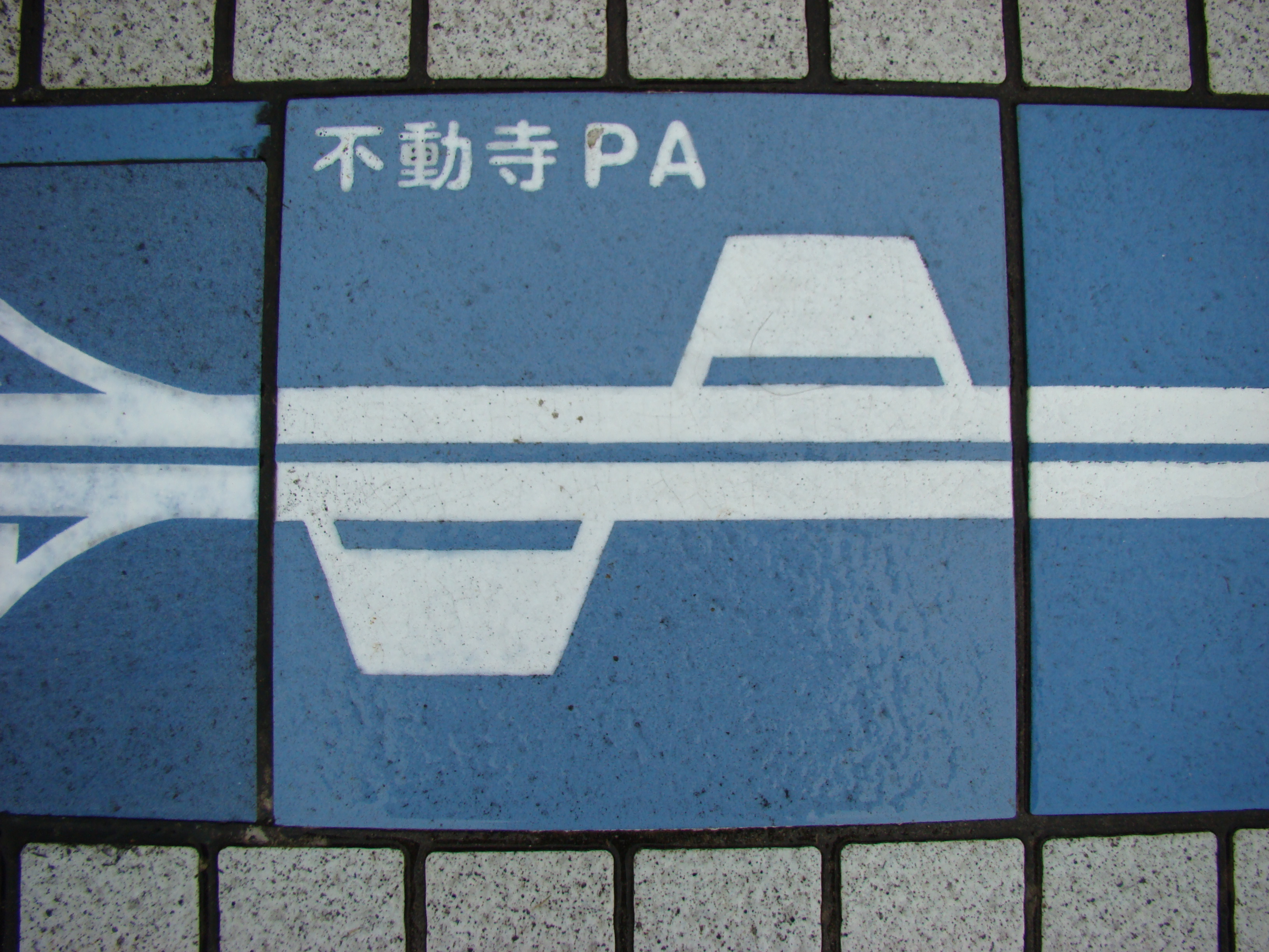 The tile which designed a shape of the Fudoji Parking Area（Hokuriku Expressway）（There is this tile in Hokuriku Expressway Nadachi-Tanihama Service Area.）. Place - Chayagahara,Joetsu City,Niigata Prefecture,Japan Date - August 9, 2009 Format - JPEG, 3264x2448pixel, 24bit colors. Photographer - NALA Wiki (talk)